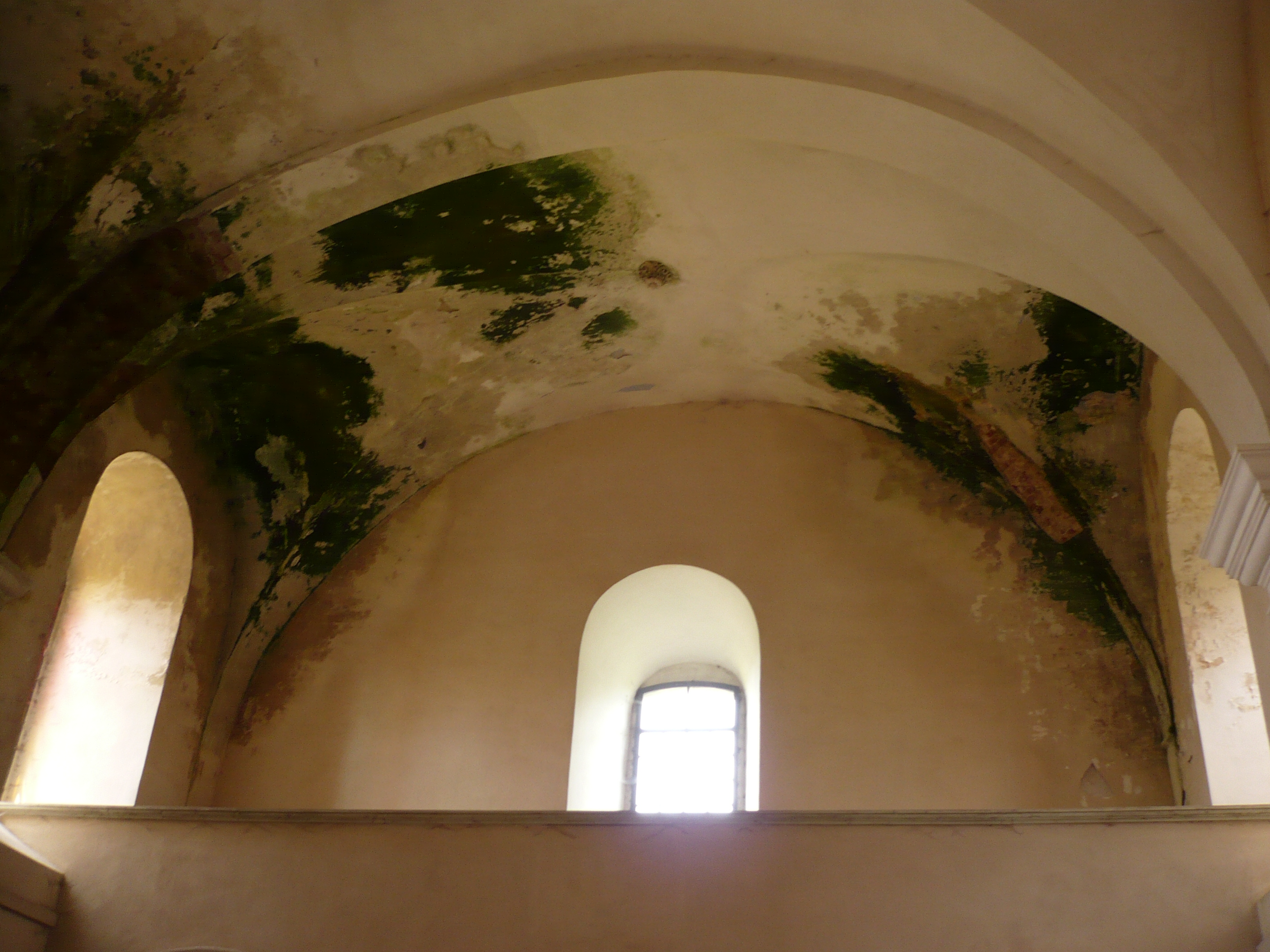 Church of the Assumption of Mary in Bilyi Kamin